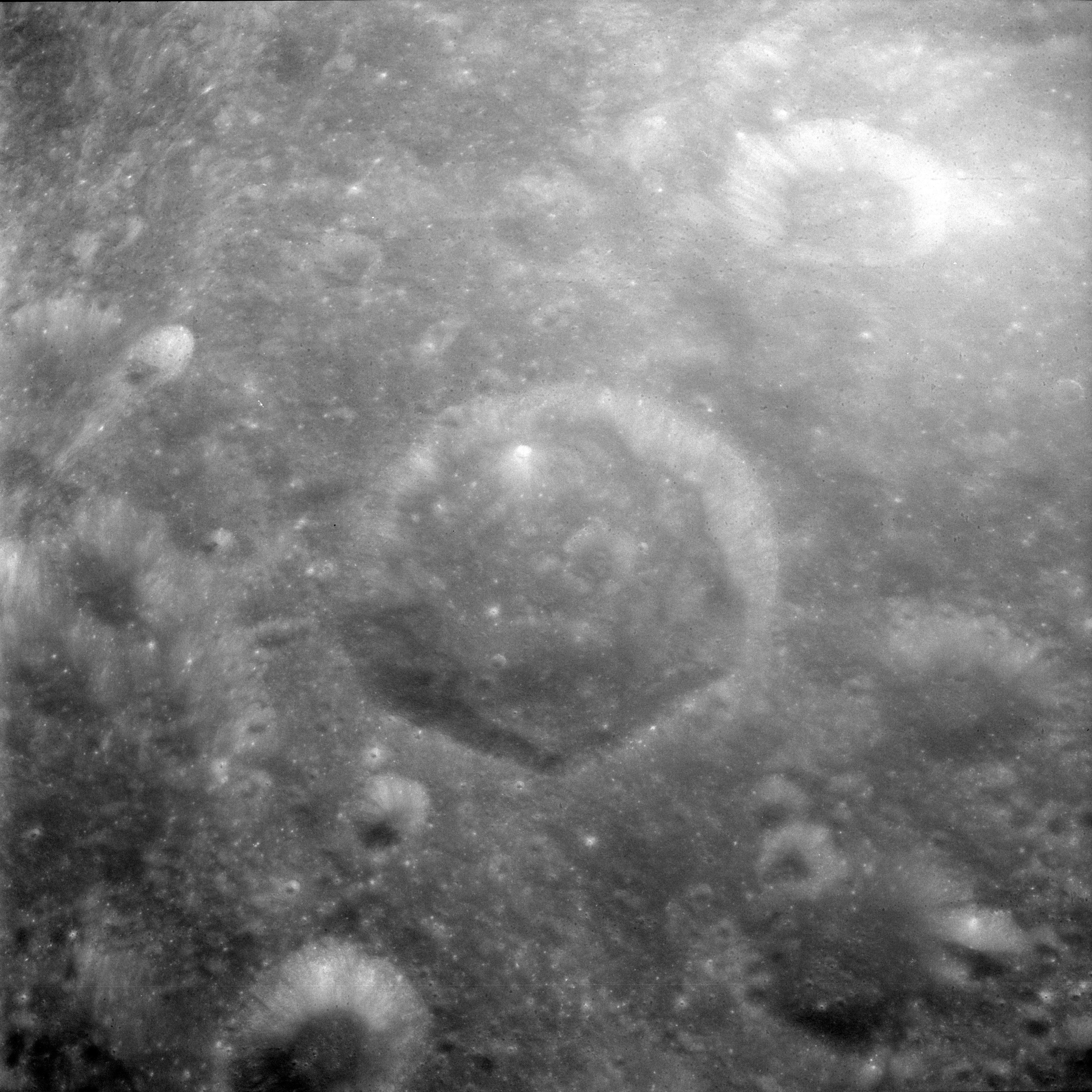 Oblique view of Vening Meinesz W crater (center), on the far side of the moon.